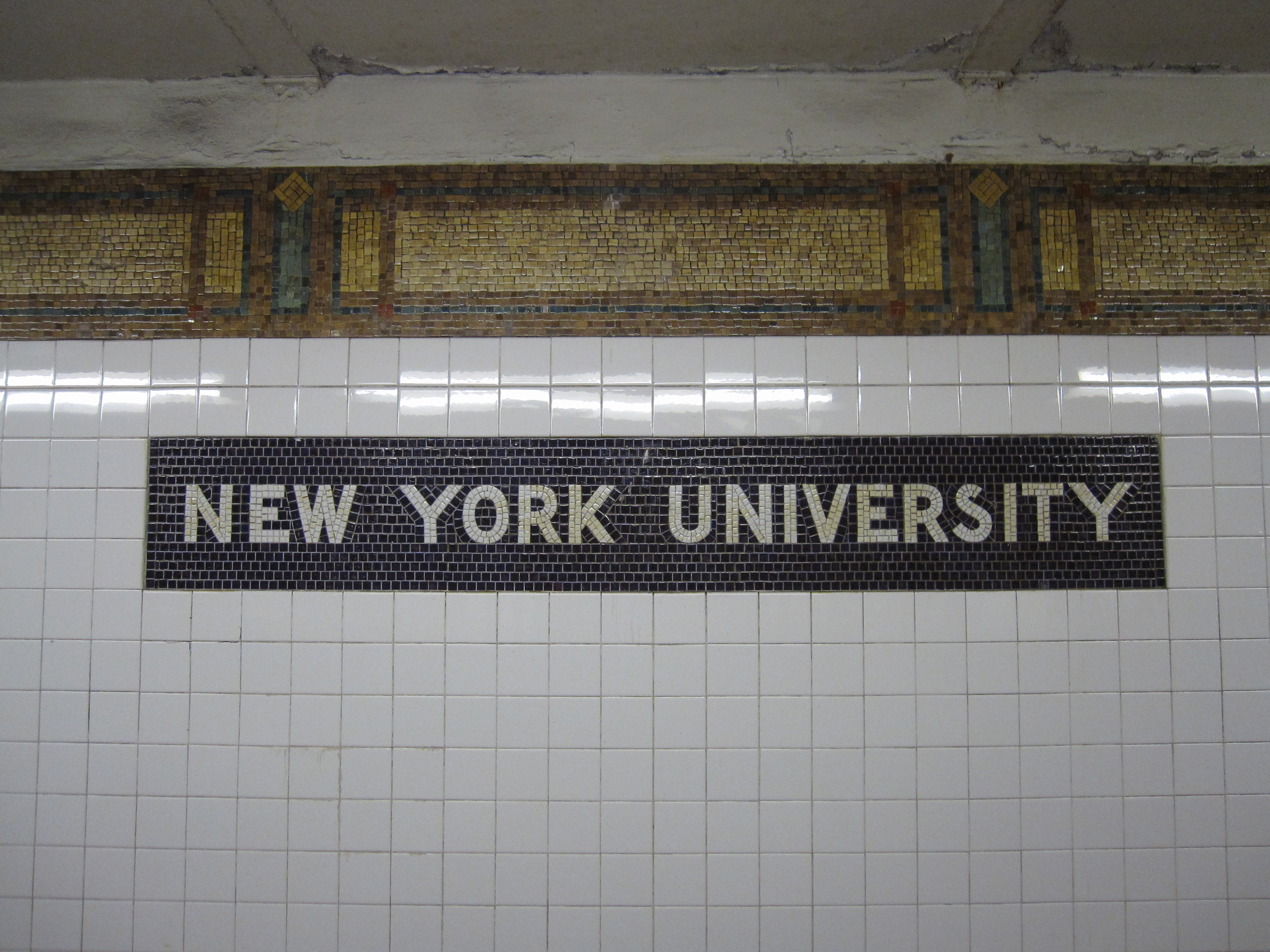 8th Street – NYU (BMT Broadway Line)